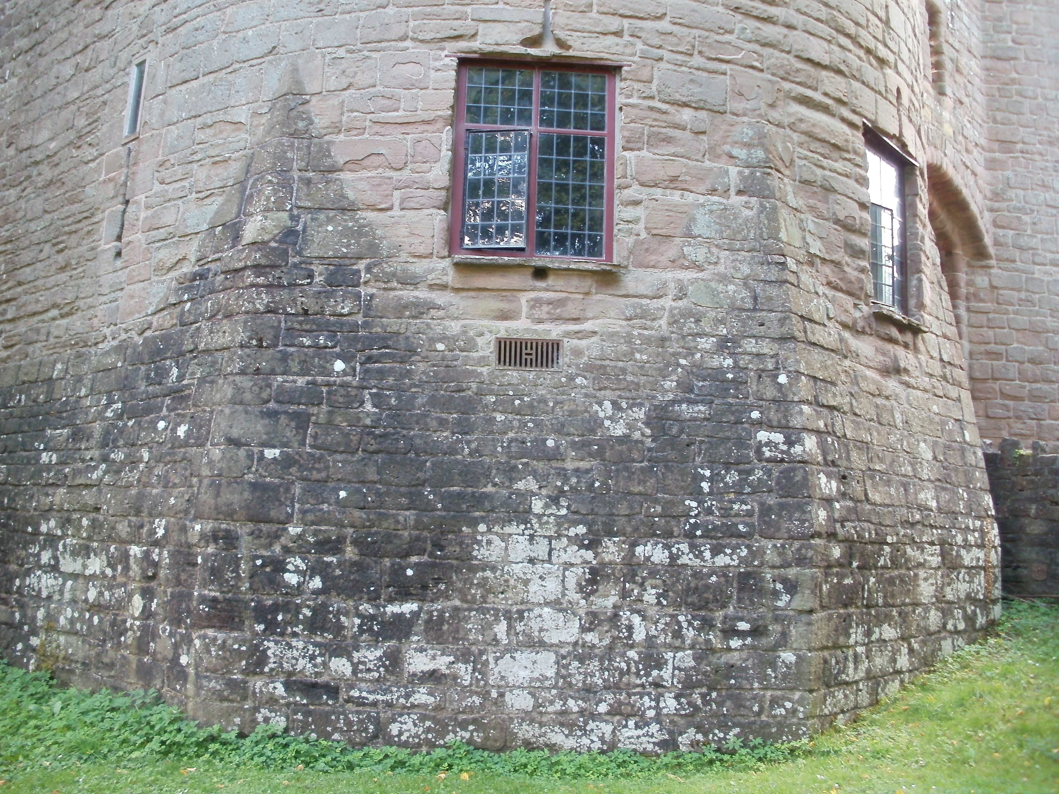 The octagonal "spur" of St Briavel Castle's gatehouse.